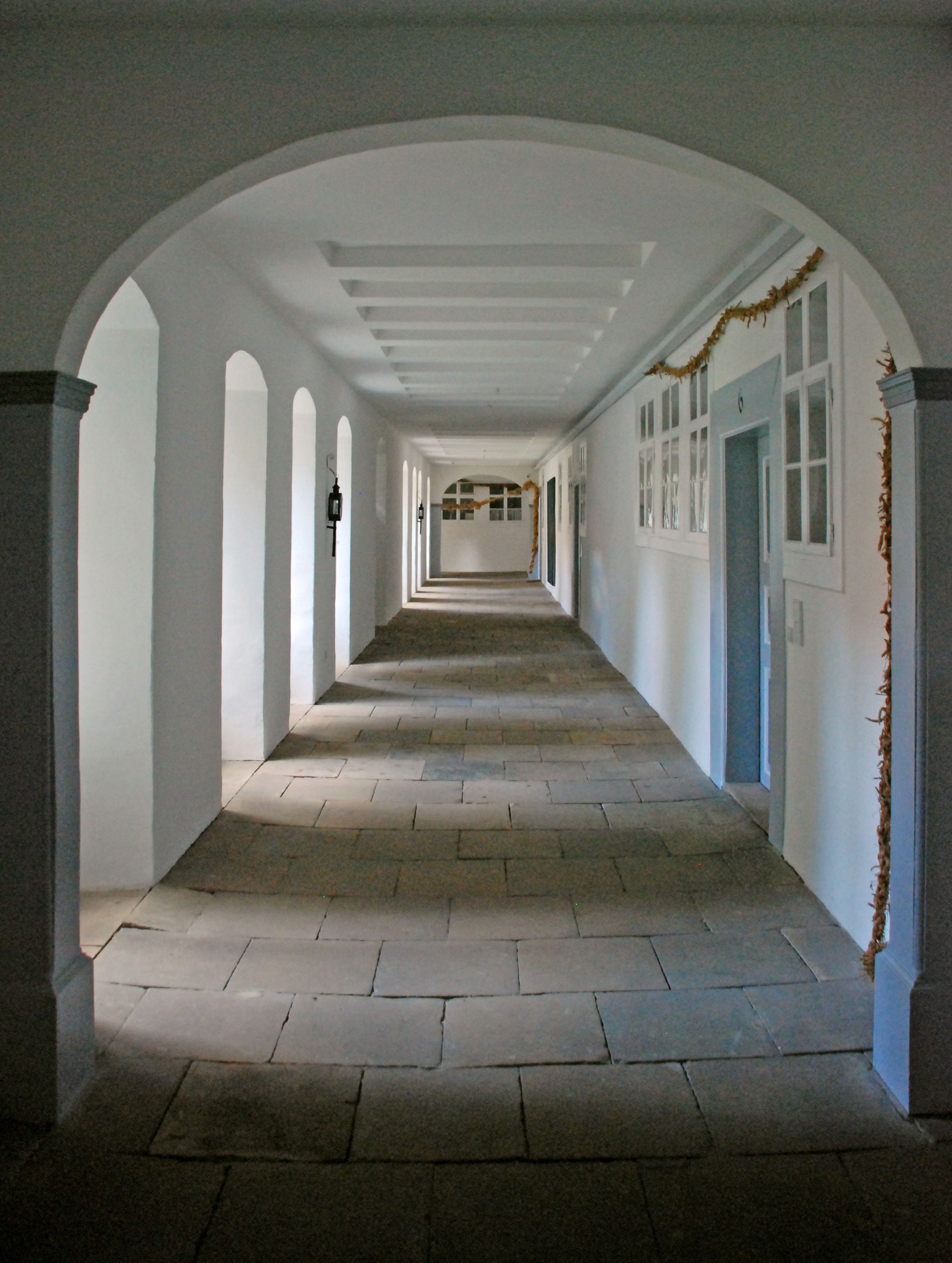 Cloister of Kloster Mariensee, Niedersachsen, Deutschland